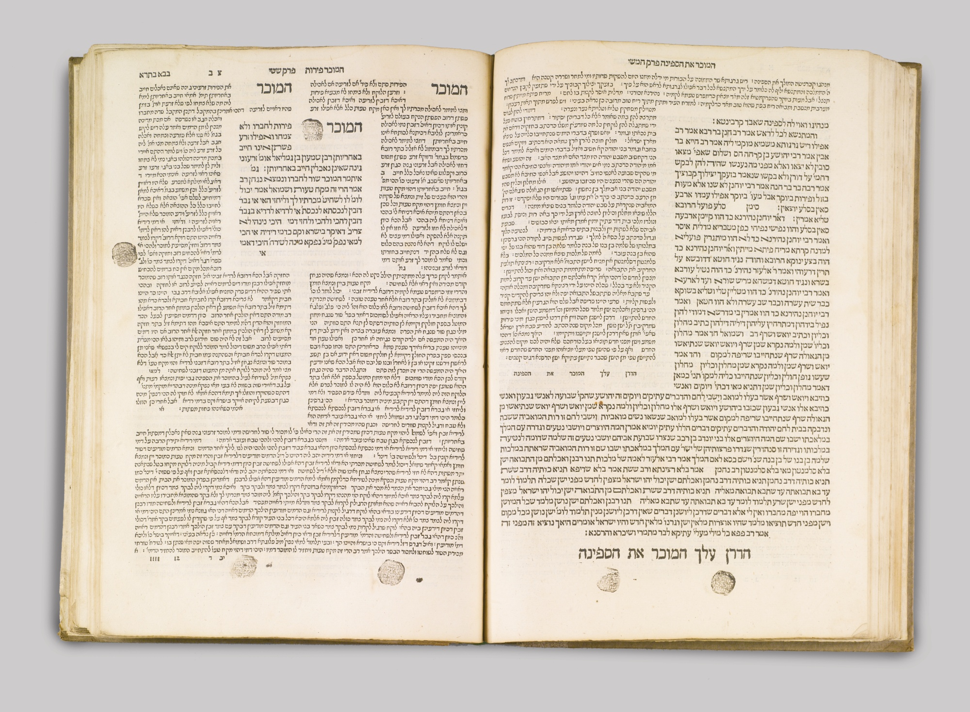 Babylonian Talmud, Tractate Bava Batra, Venice: Daniel Bomberg, 1522. In terms of the number of printed pages, Bava Batra is the lengthiest of all the tractates in the Bomberg Talmud. Bava Batra's length is attributable to the fact that the characteristically concise commentary of Rashi is printed only through folio 29a. There, a printed notation indicates that the subsequent commentary is the work of Samuel ben Meir (Rashi's grandson); known by the acronym Rashbam, his commentary is noticably less succinct than that of his grandfather.